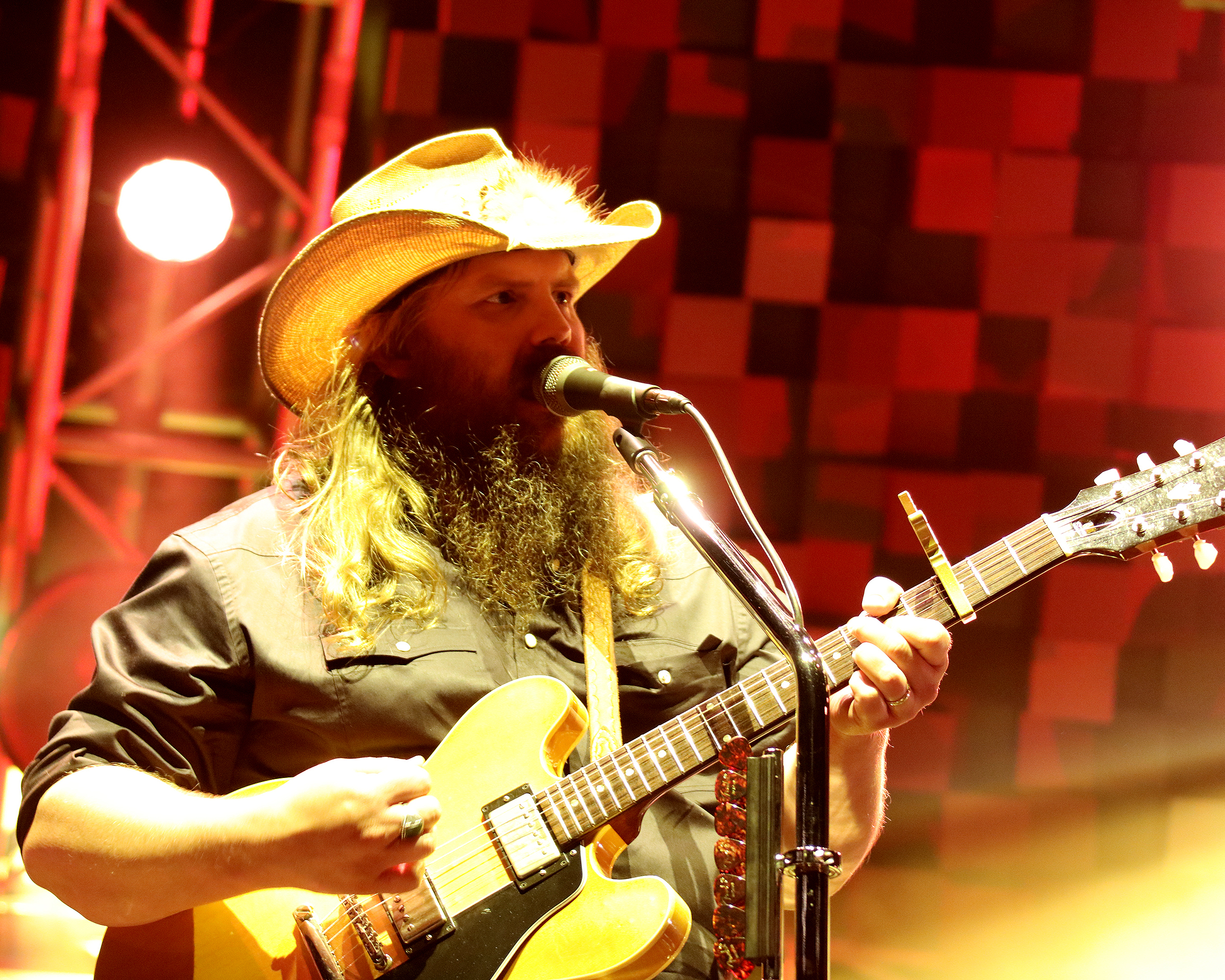 Governor Hogan Attends the Chris Stapleton Concert at Merriweather Post Pavilion.